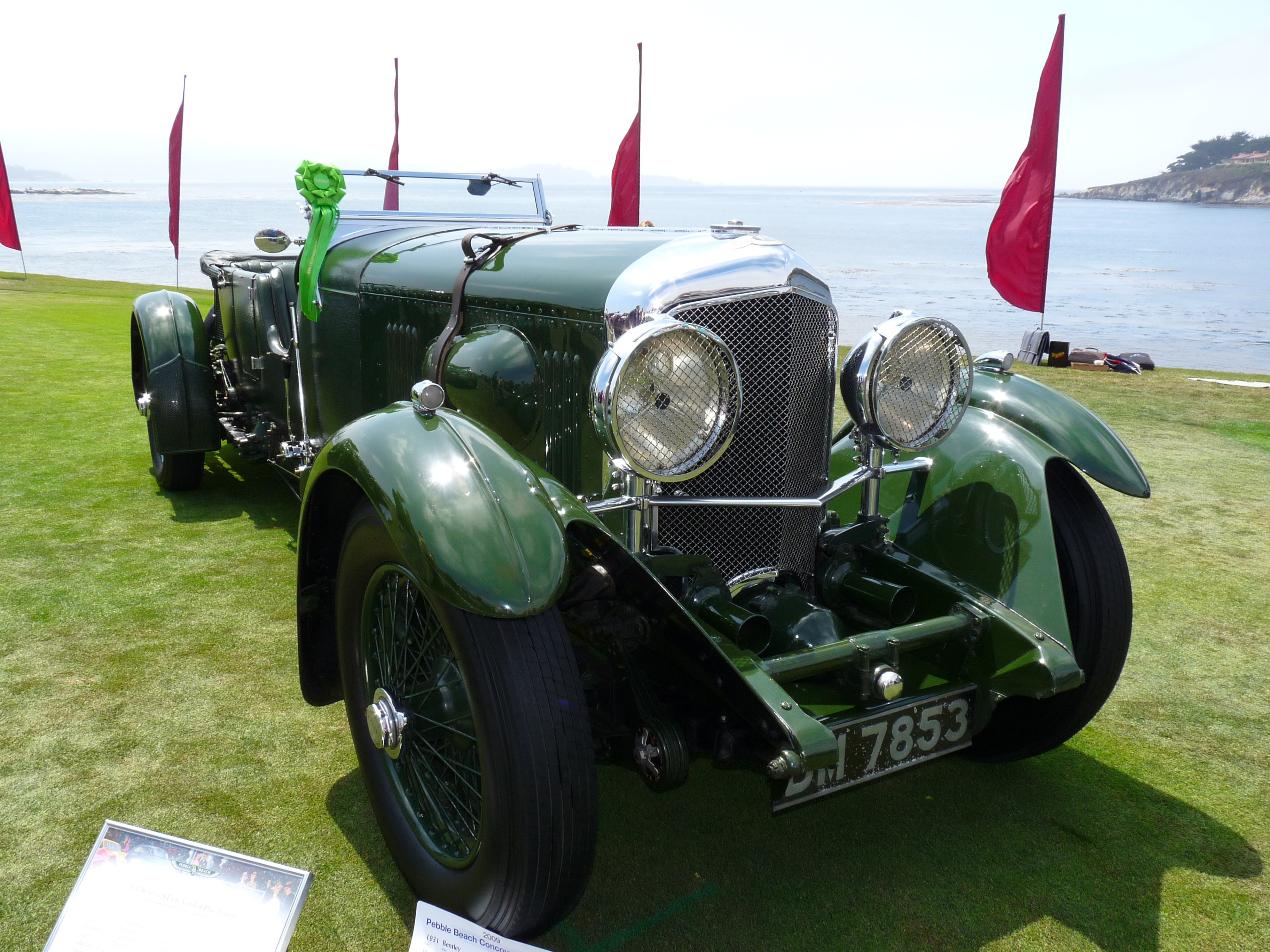 1931 Bentley 8 Litre Vanden Plas Tourer at 2009 Pebble Beach Concours d'Elegance.